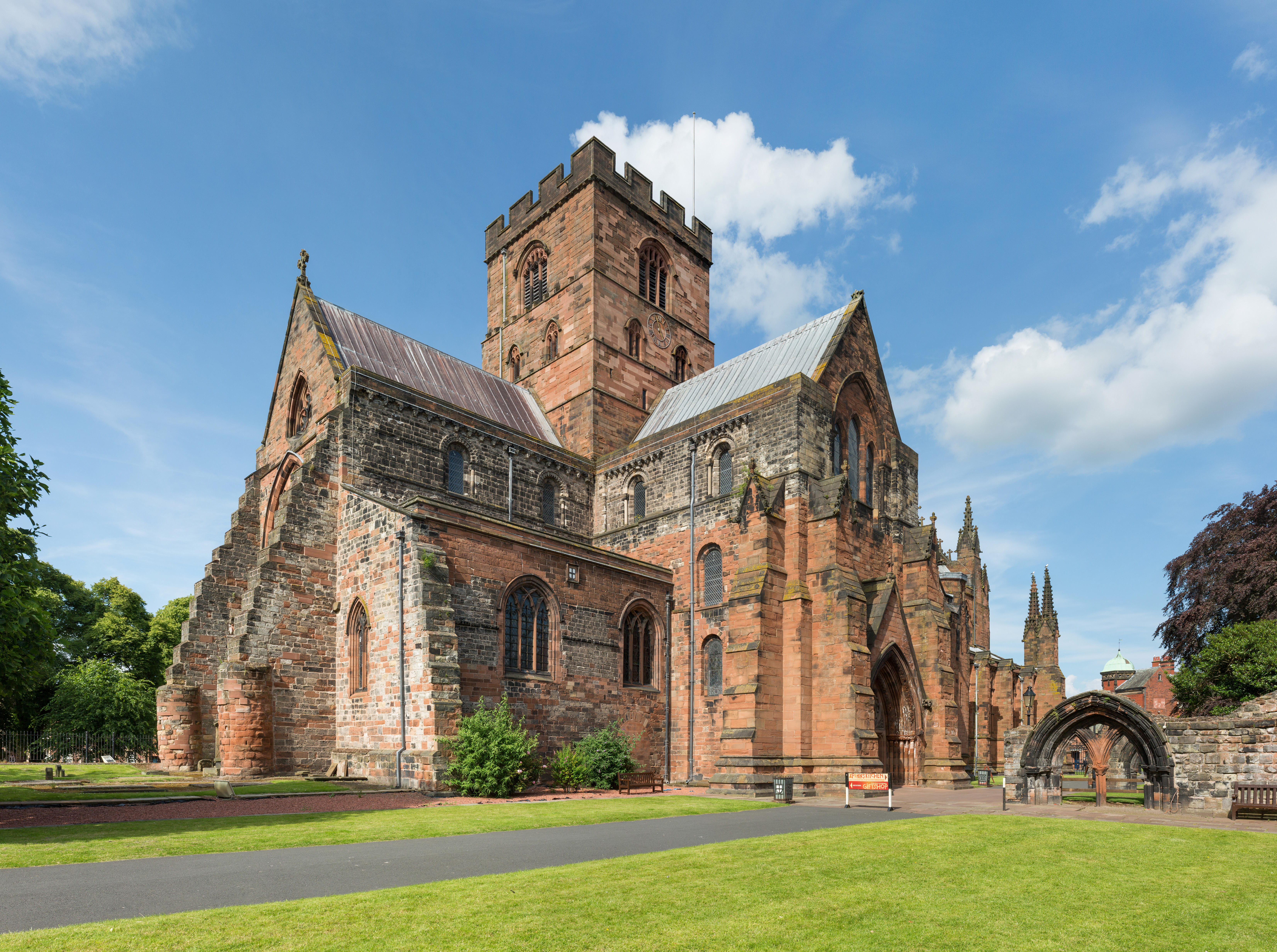 The exterior of Carlisle Cathedral as viewed from the